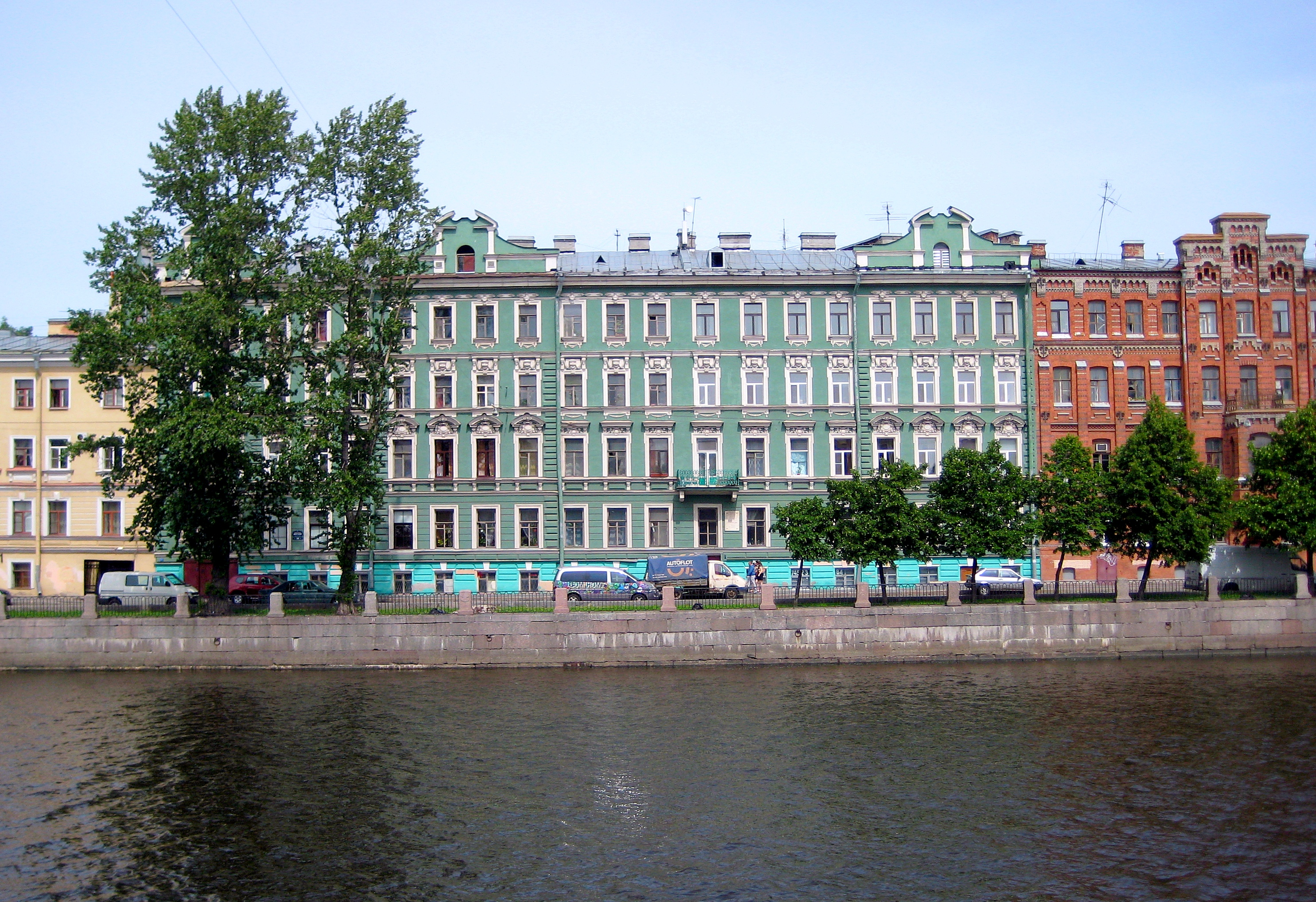 Profitable house of Klokachev (architect P.M. Mulkhanov), 1903: embankment of Fontanka, 185. Admiralteysky district, St. Petersburg. At this address, the poet AS Pushkin lived (in 1817-1820) and the architect K.I. Rossi (in the 1840s)